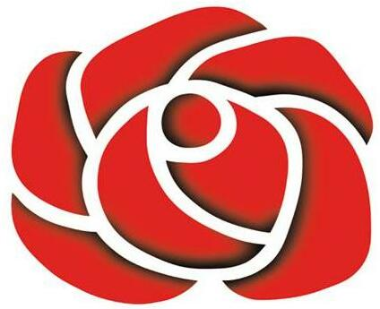 Logo of the Social Democratic Party of Andorra